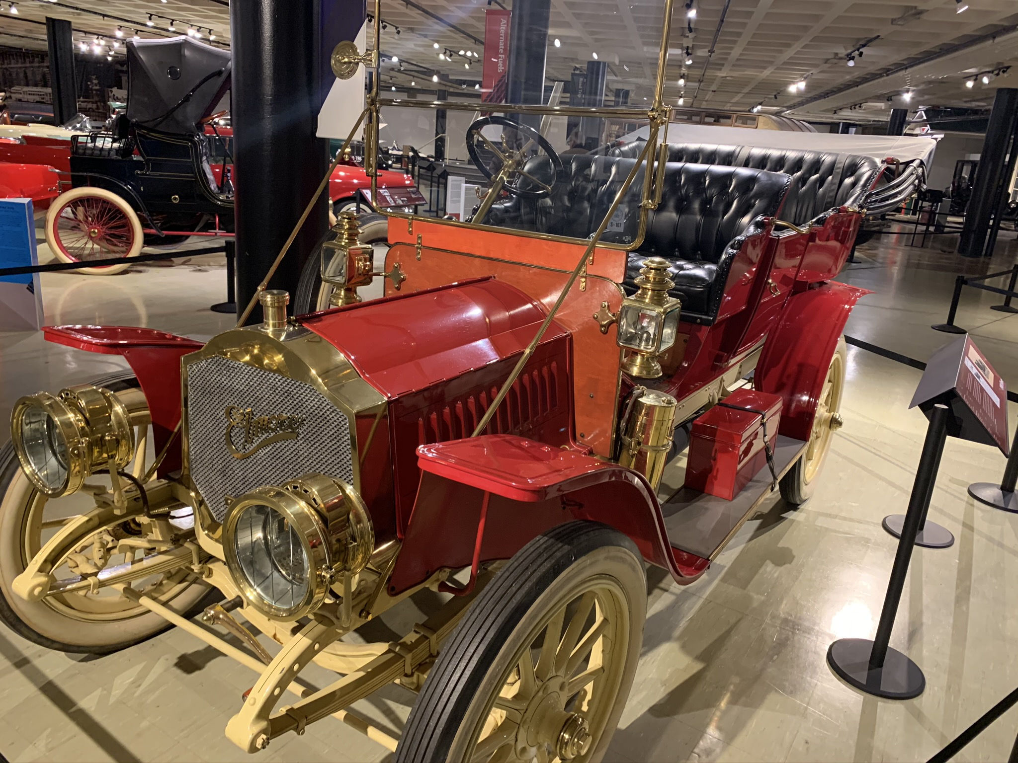 1908 Elmore Crawford Auto-Aviation Museum